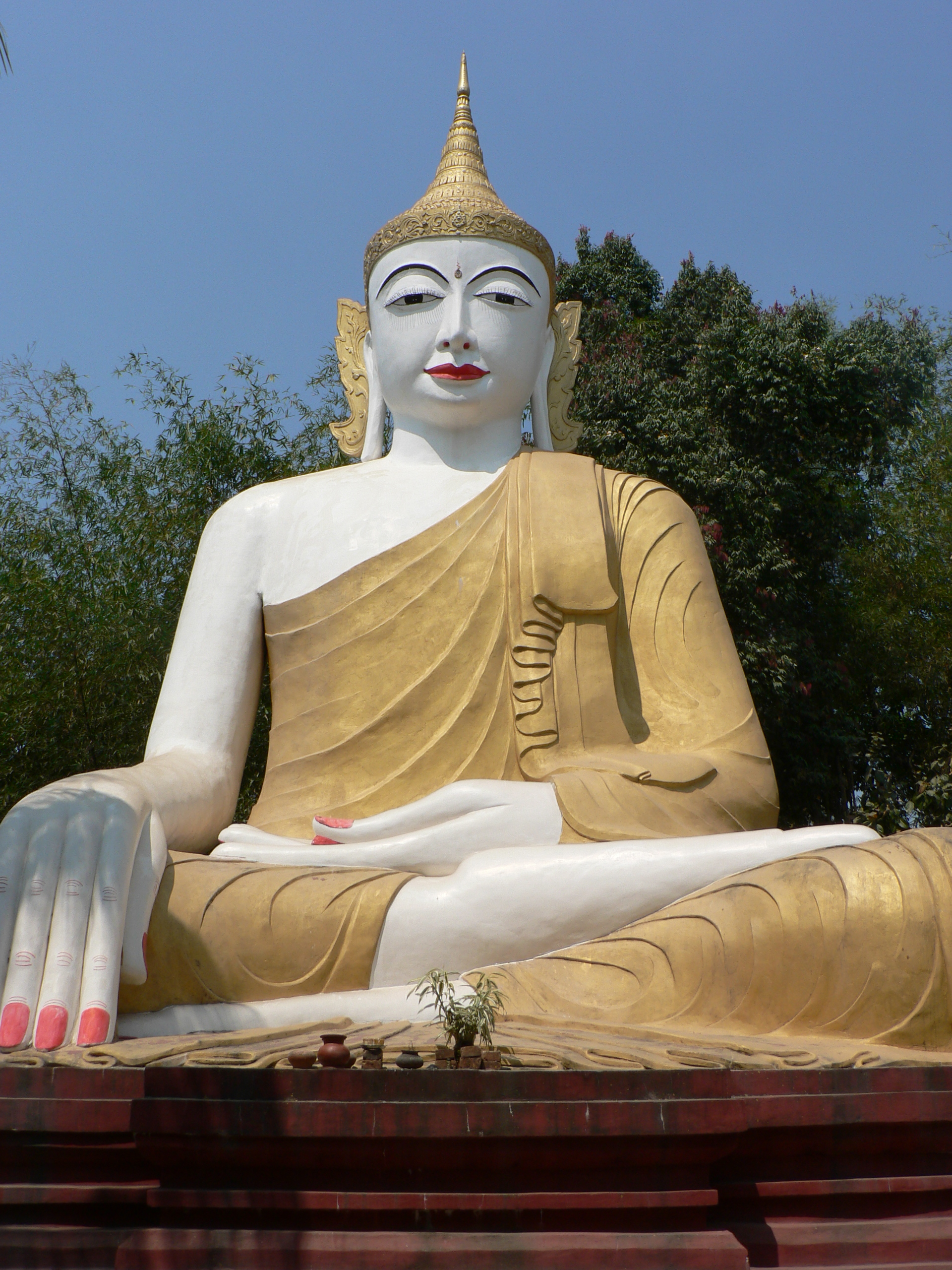 Sitting Buddha, Twante (a town near Yangon), Myammar)